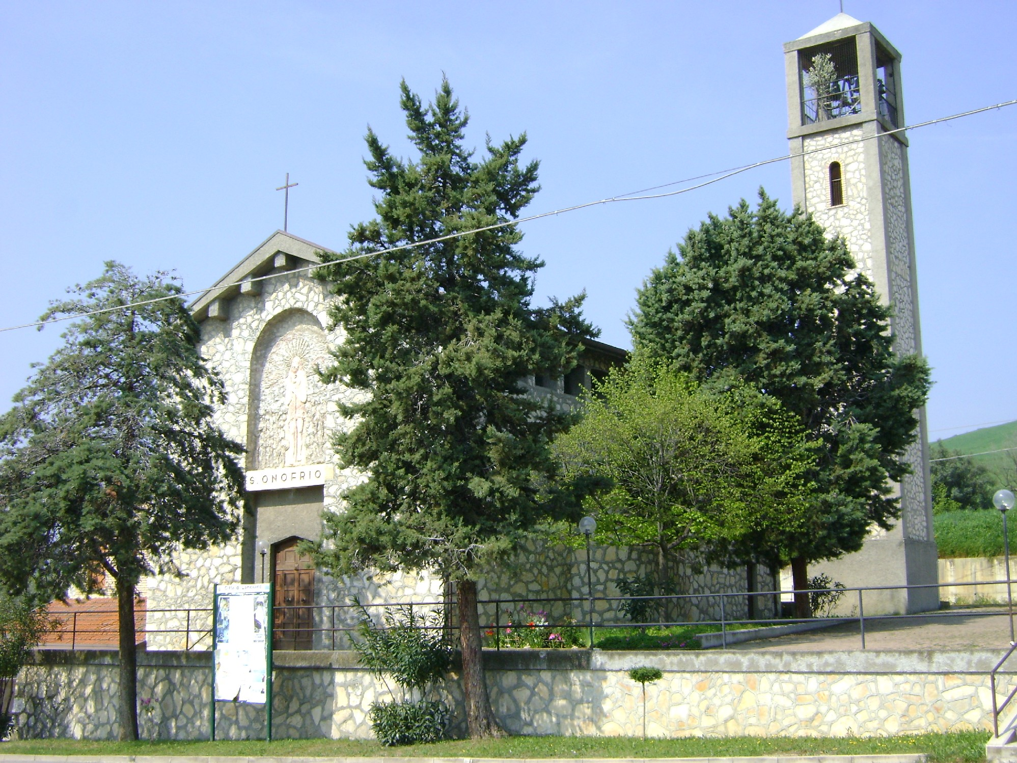 The church of Saint Onofrio, Lanciano, province of Chieti